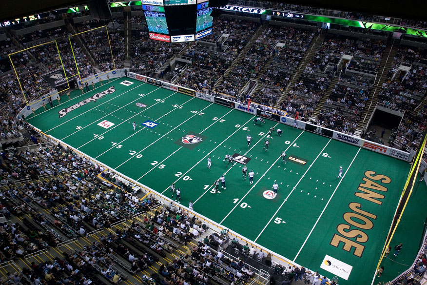 Sabercats at 2007 Championship. Photo by Michael Sierra